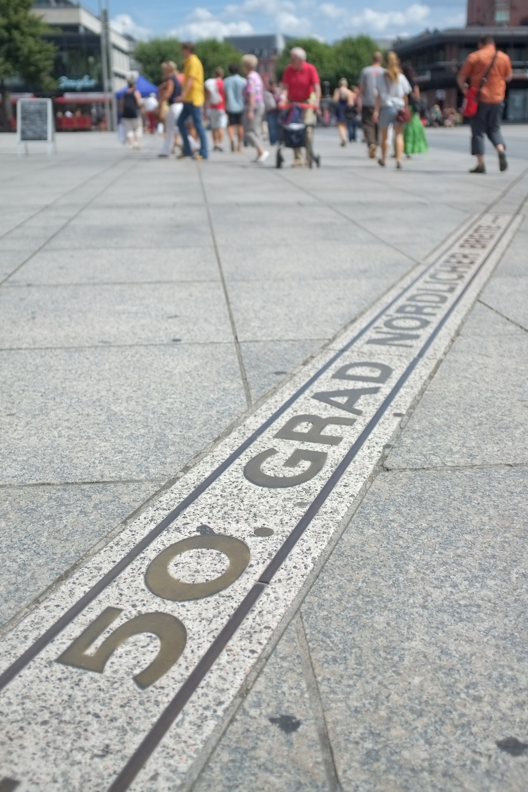 50. Breitengrad in Mainz